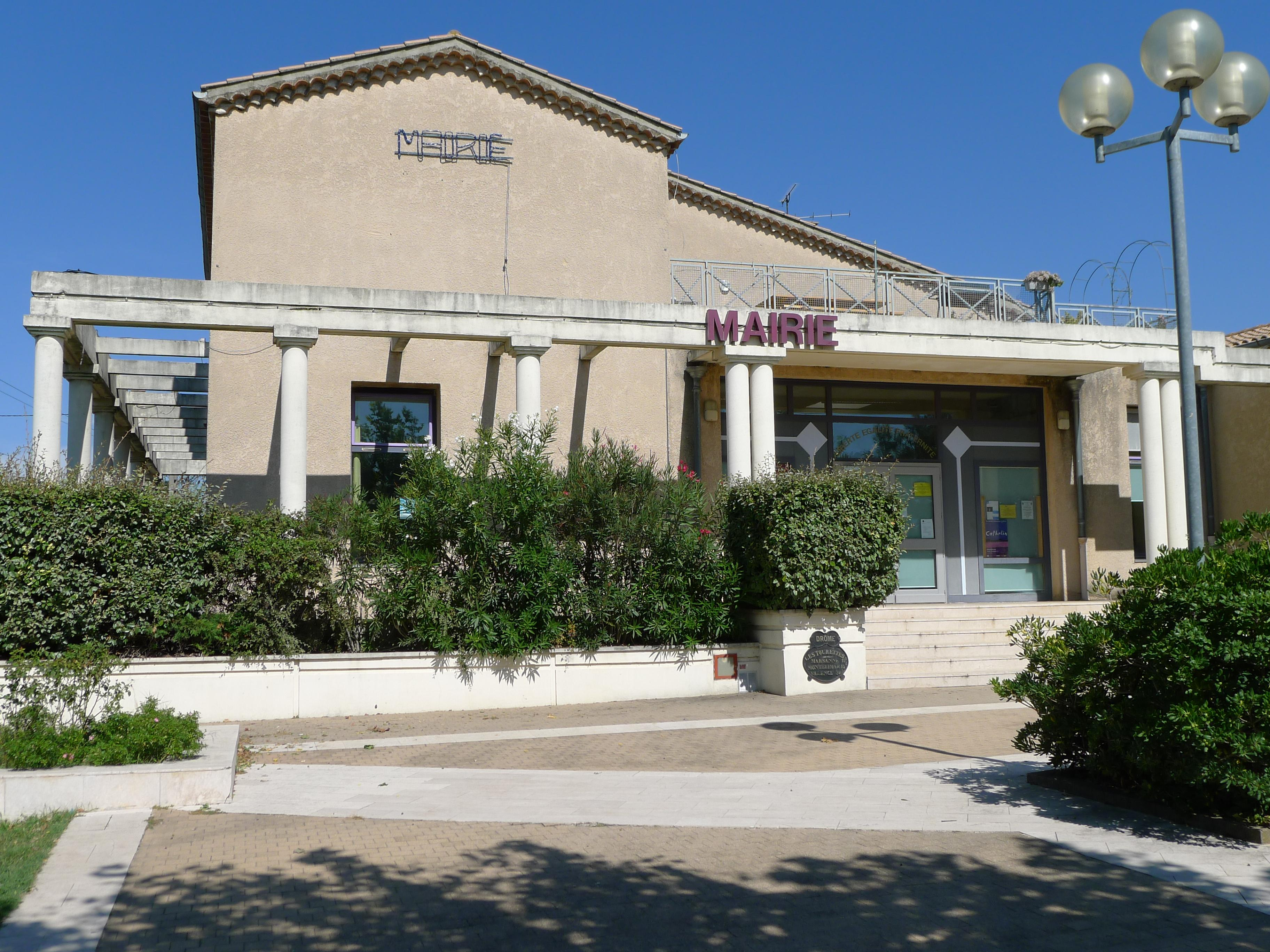 Town hall of Les Tourettes - Drôme - France